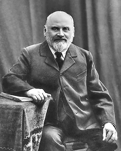 Mily Alexeyevich Balakirev (Russian: Милий Алексеевич Балакирев, Milij Alekseevič Balakirev) (January 2, 1837 – May 29, 1910) was a Russian composer.